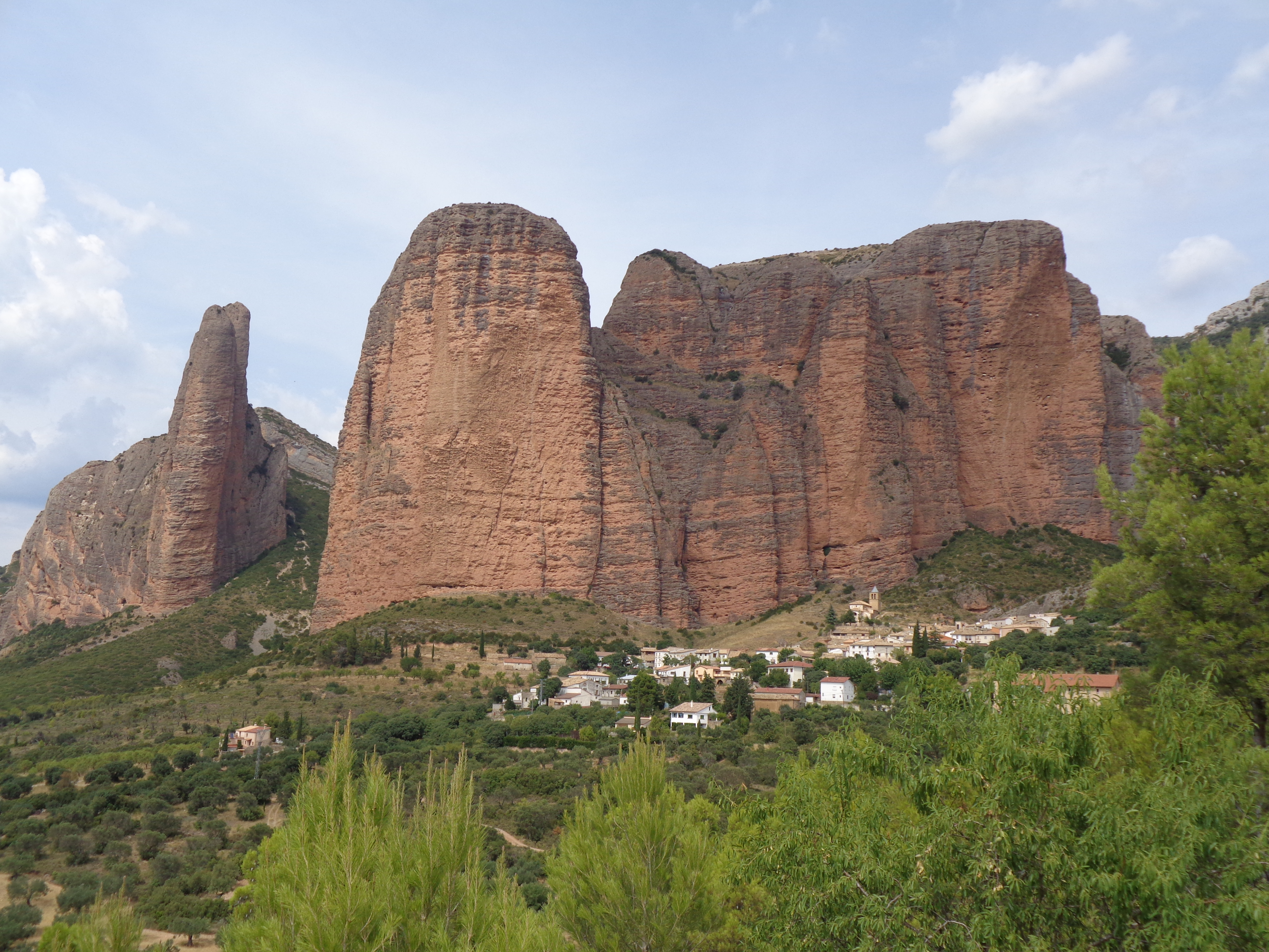 Riglos, prov. Huesca, Spain, with Mallos de Riglos